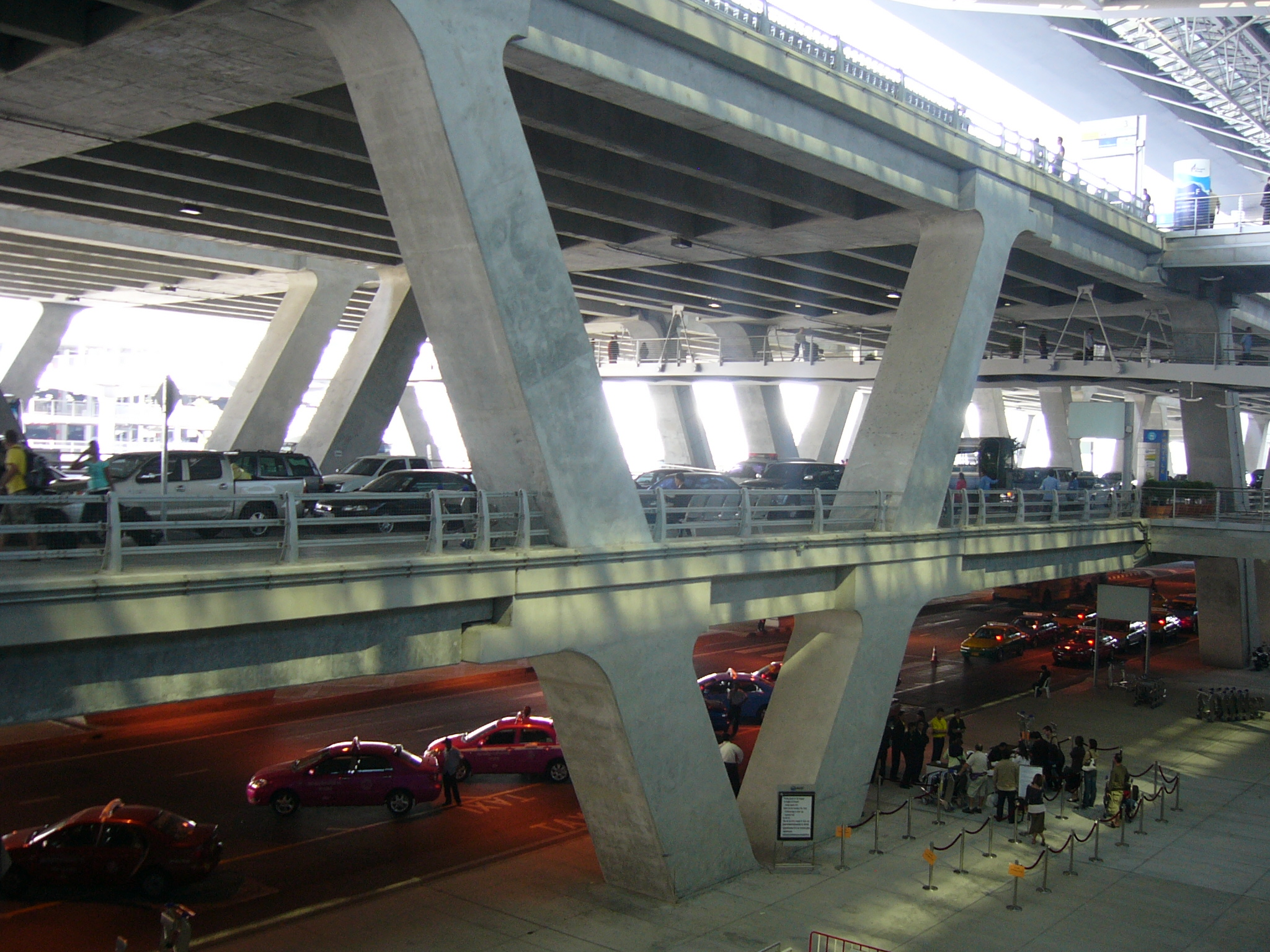 Front view of the passenger terminal with three street levels at Suvarnabhumi International Airport, Thailand. The passenger terminal is located on the right side. Official taxi cabs are located on the lowest level for hop-on, hop-off and waiting.